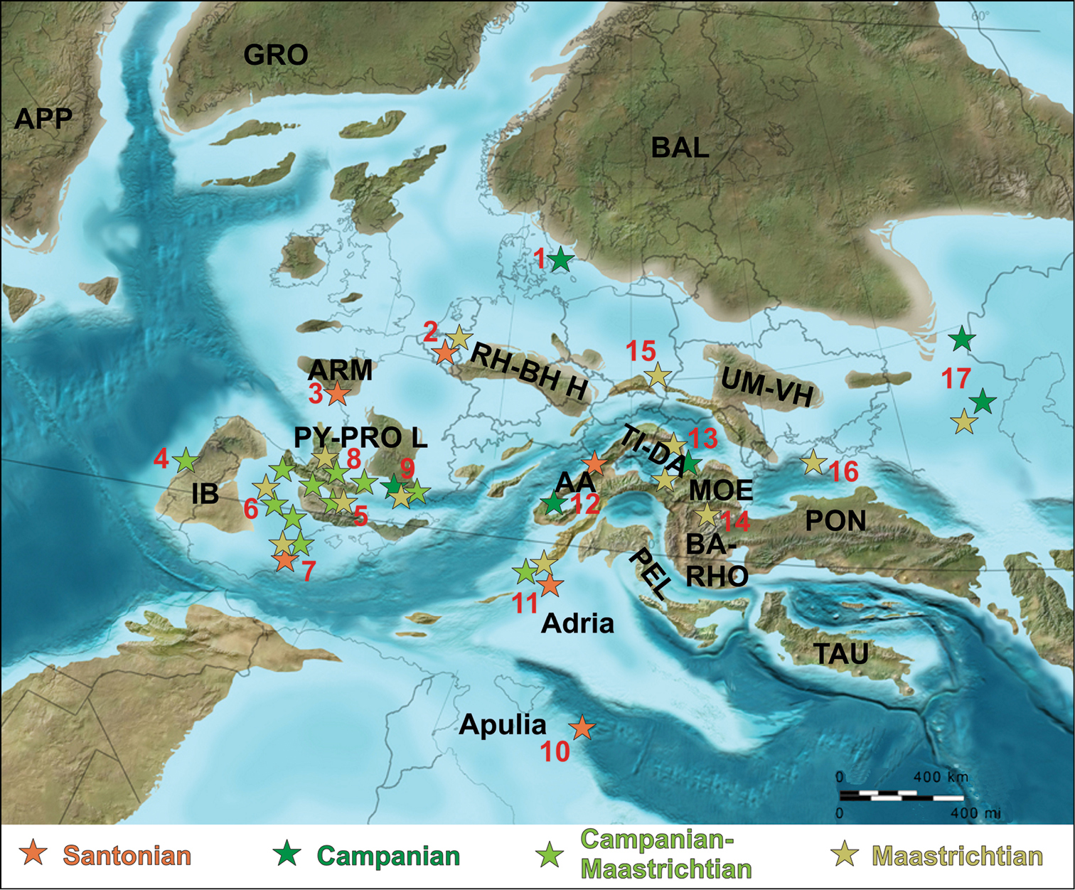 Paleogeographic distribution of the late Late Cretaceous (Santonian–Maastrichtian) European continental vertebrate assemblages (base map for late Campanian, ~ 75 Mya, courtesy of R. Blakey). Abbreviations: 1 Scania (southern Sweden) 2 Belgium-The Netherlands 3 western France 4 western Iberia (Portugal) 5 Cantabrian-southern Pyrenean region (northern Spain) 6 central Iberian region (central Spain) 7 eastern Iberian region (eastern Spain) 8 Languedoc (western southern France) 9 Provence (eastern southern France) 10 Apulia (southern Italy) 11 Adriatic-Dinaric Carbonate Platform (eastern Italy, Slovenia) 12 Austroalpine region (eastern Austria, western Hungary) 13 Transylvania (northwestern Romania) 14 northern Bulgaria 15 southeastern Poland 16 Crimea 17 southern Russia (for details, see also Figs 1, 4 and text); AA Austroalpine Domain; APP Appalachia; ARM Armorican Massif; BA-RHO Balkans-Rhodope Orogen; BAL Baltic Landmass; GRO Greenland; IB Iberian Landmass; MOE Moesian Platform; PEL Pelagonian Domain; PON Pontides Orogen; PY-PRO L Pyrenean-Provencal Landmass; RH-BH H Rhenish-Bohemian High; TAU Taurus Block; TI-DA Tisia-Dacia Block; UM-VH Ukrainian Massif-Voronezh High. Note that emergent land was more extensive during Maastrichtian times than represented in the map, with most Spanish-French localities situated in purely continental setting.